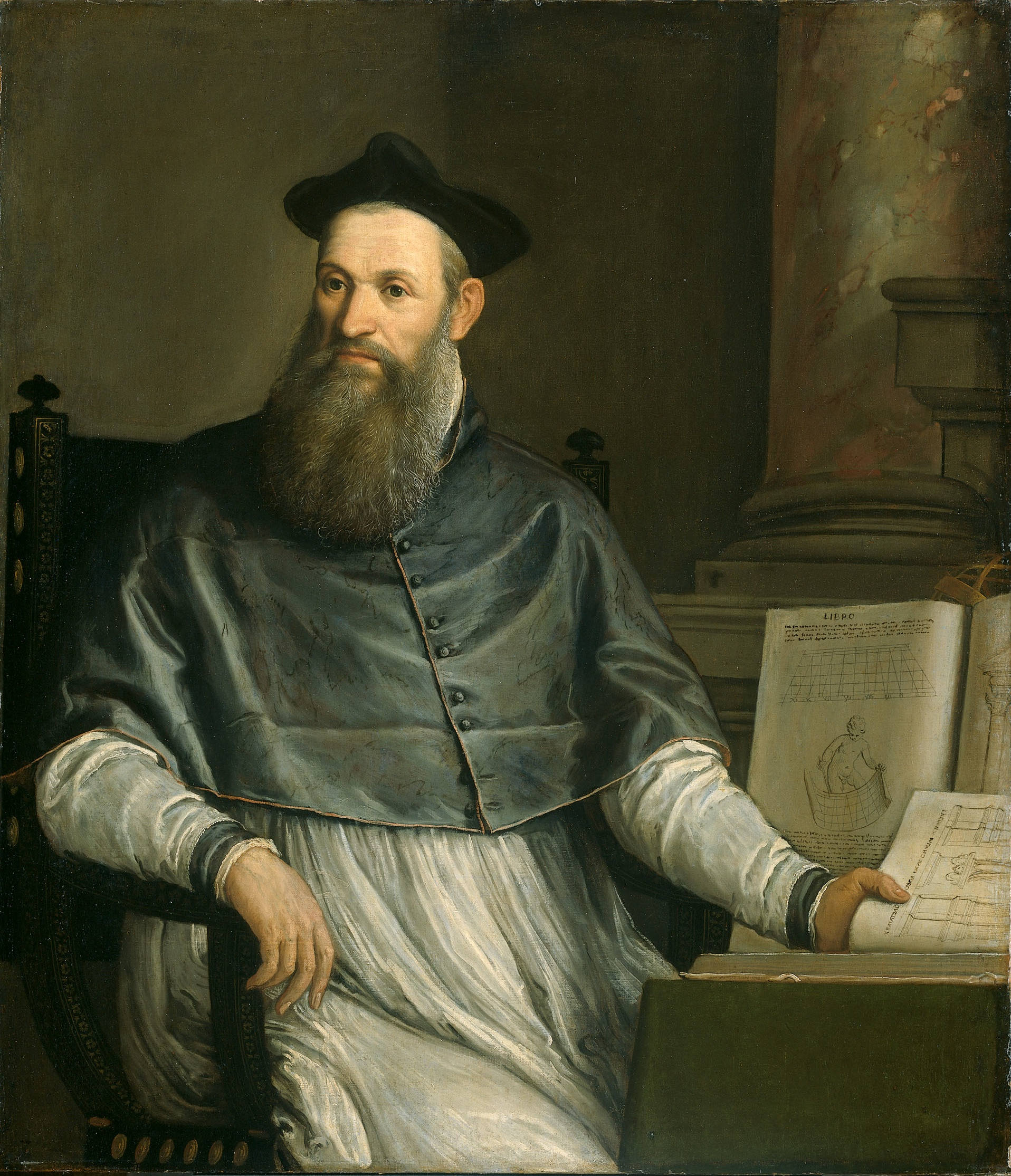 Daniele Barbaro is depicted dressed as patriarch with books on architecture by the ancient Roman Vitruvius, which he translated and which were illustrated by Andrea Palladio